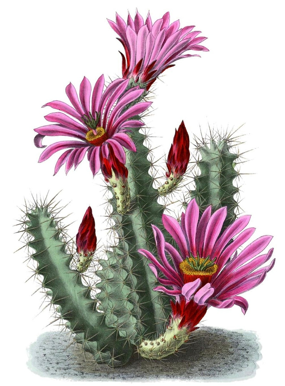 Echinocereus enneacanthus ssp. brevispinus